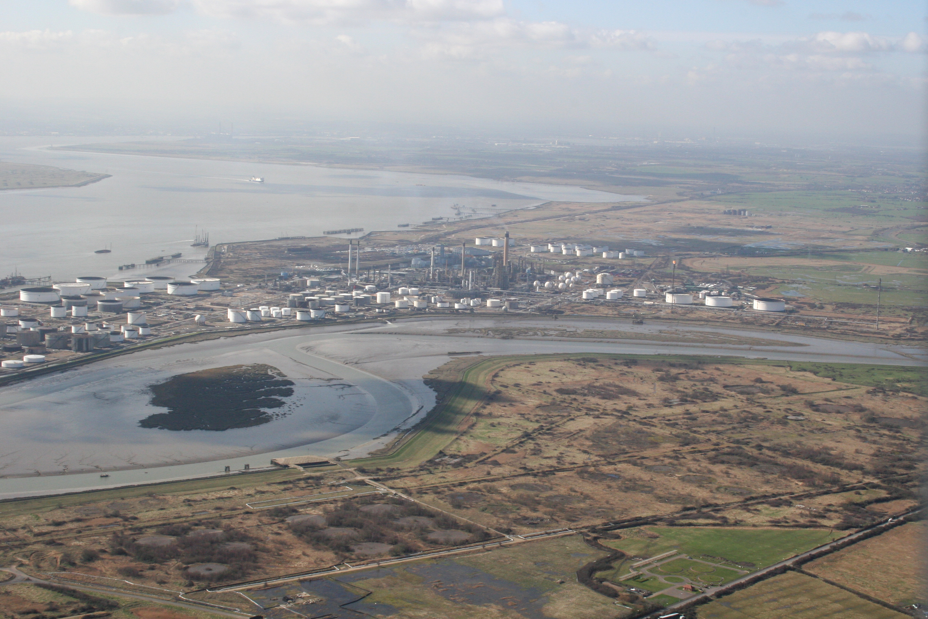 aerial photo of Canvey Island